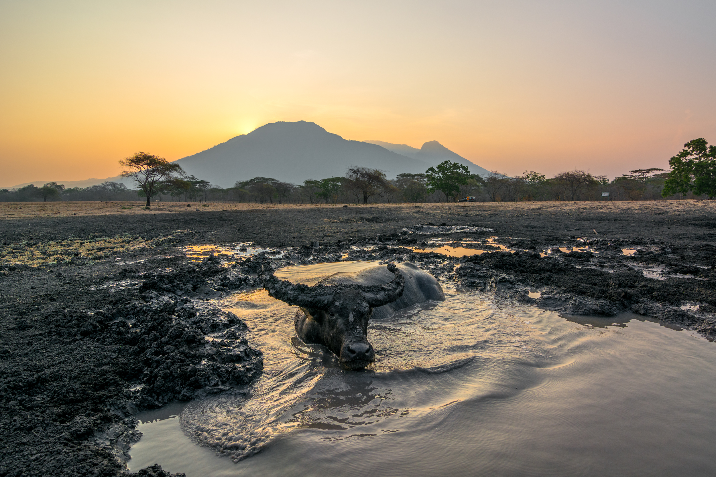 A feral buffalo (Bubalus bubalis) soaking at the Bekol Savannah in Baluran National Park at dusk.